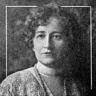 Photograph of screenwriter and director Ida May Park